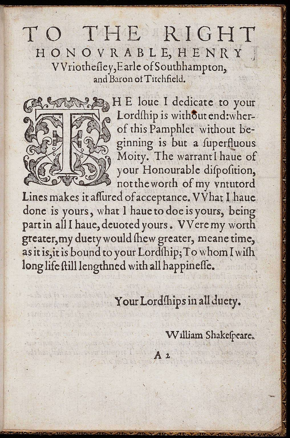 Dedication page from first edition of "The Rape of Lurece," by William Shakespeare, 1594. Image courtesy of the Elizabethan Club and the Beinecke Rare Book & Manuscript Library, Yale University.